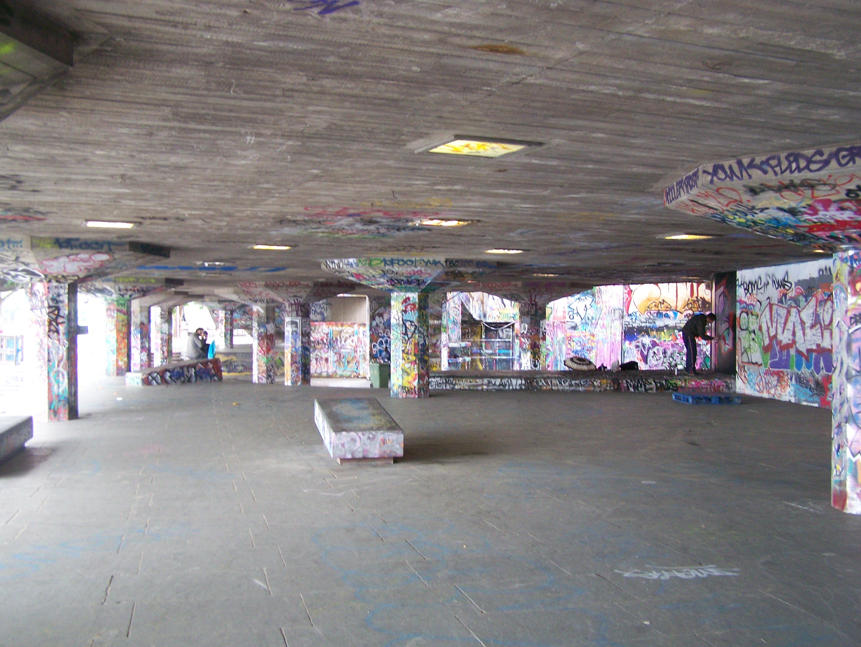 This is photograph of the undercroft skate park bellow the Queen Elizabeth Hall in South London